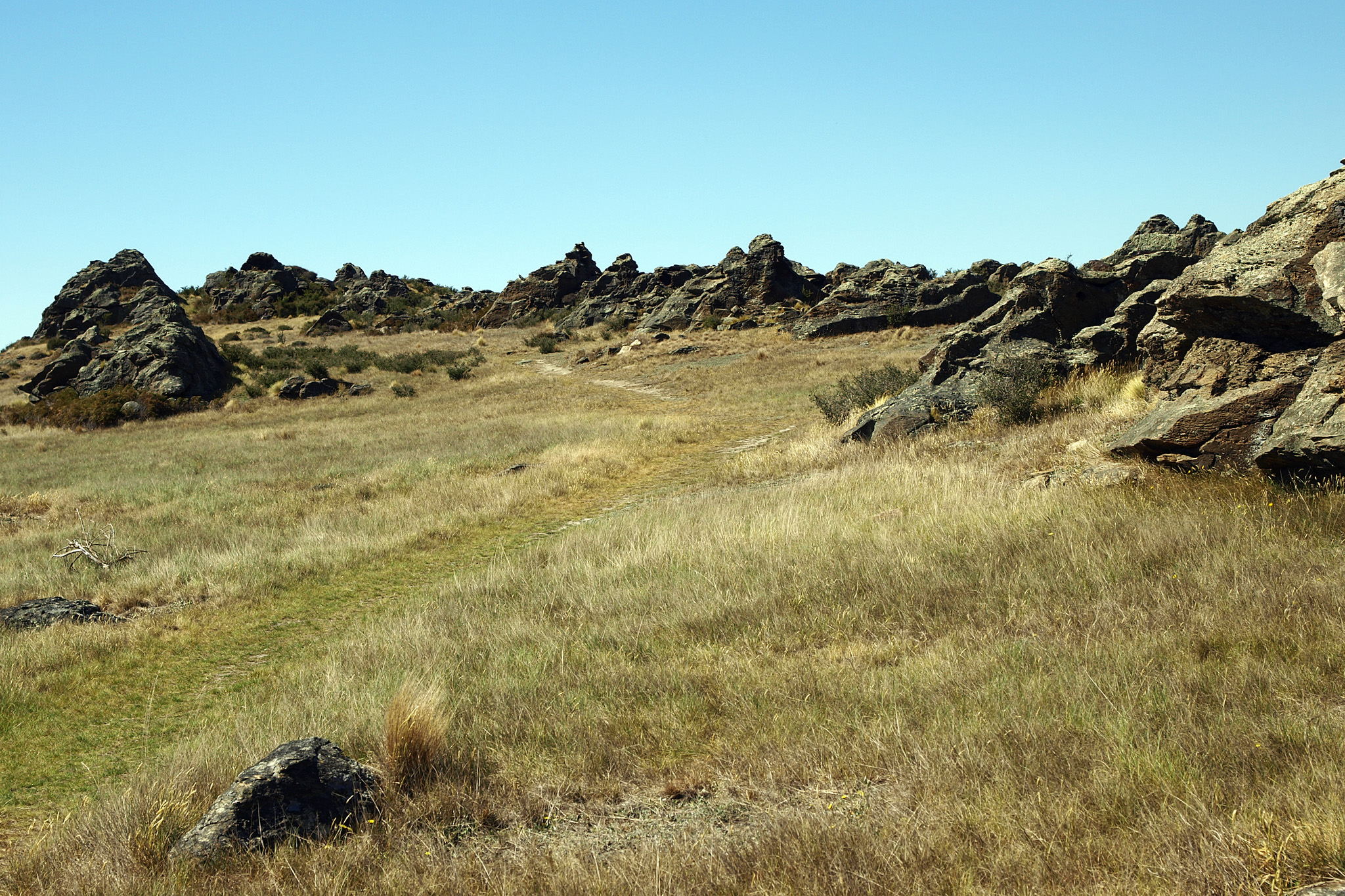 Rock and Pillar Range, Otago, New Zealand. (Rocks and Tussock)